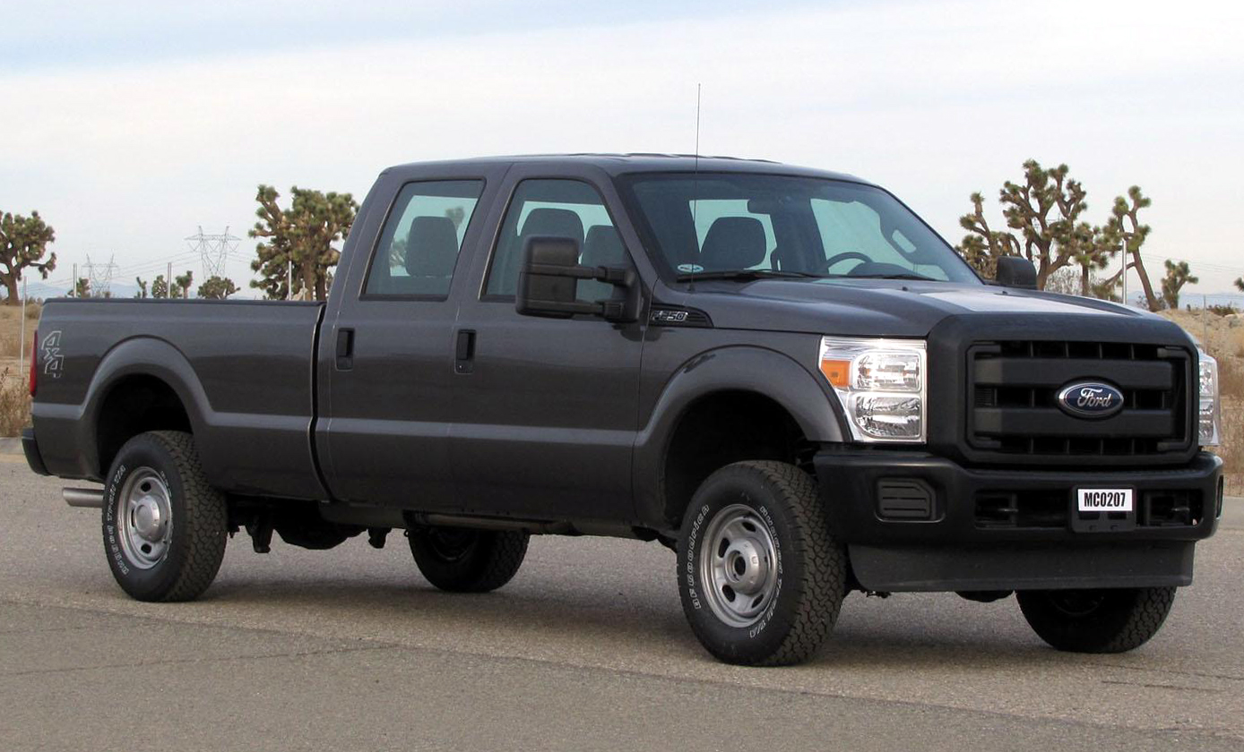 2012 Ford F-250 photographed in USA.